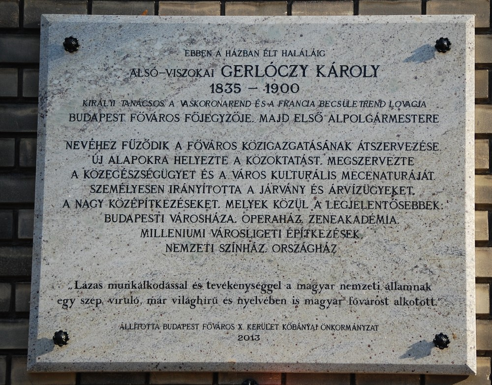 Károly Gerlóczy commemorative plaque in Budapest District X, Hölgy Street No 13.